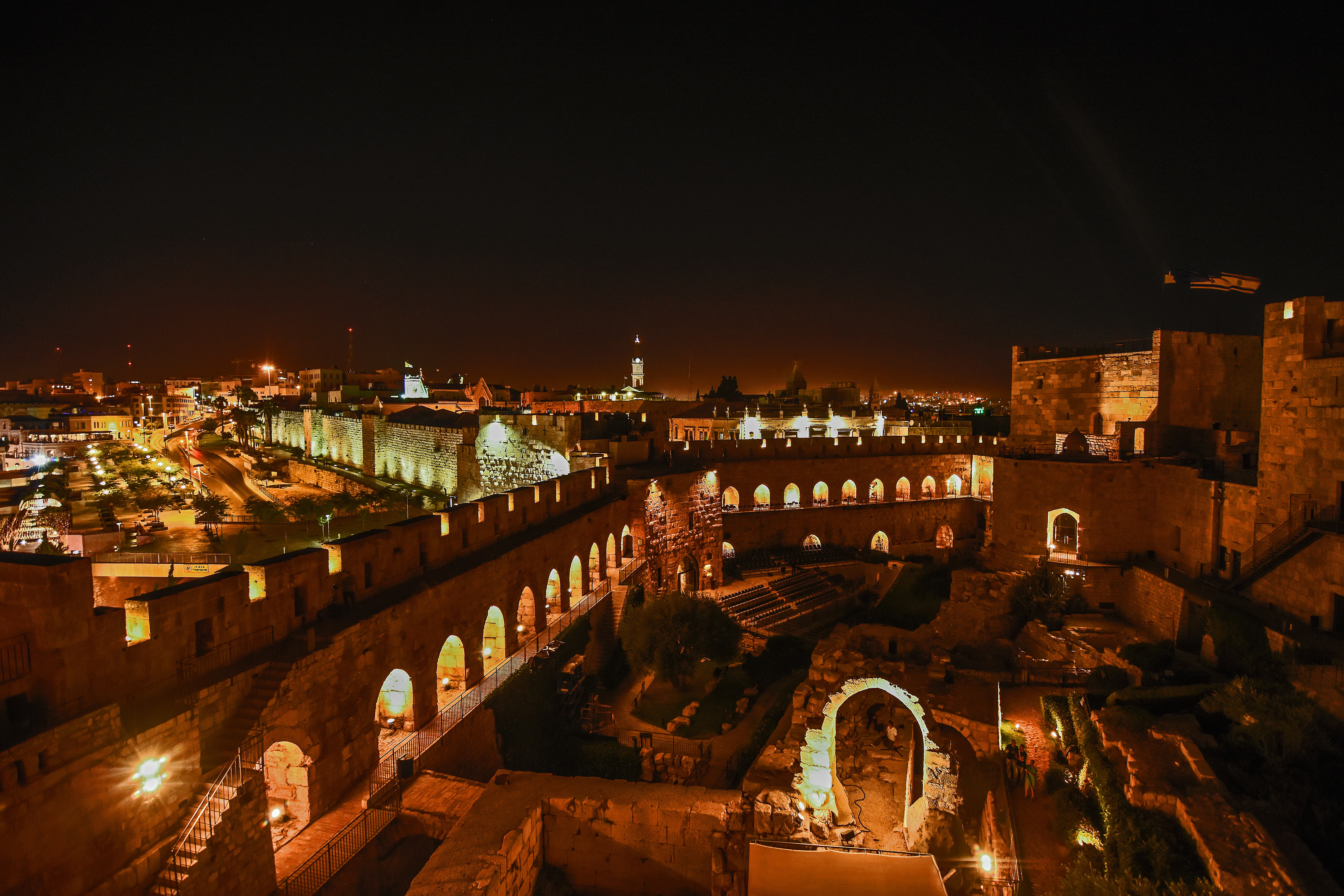 Jerusalem Citadel yard, part of the Walls of Jerusalem, built in the Ottoman period